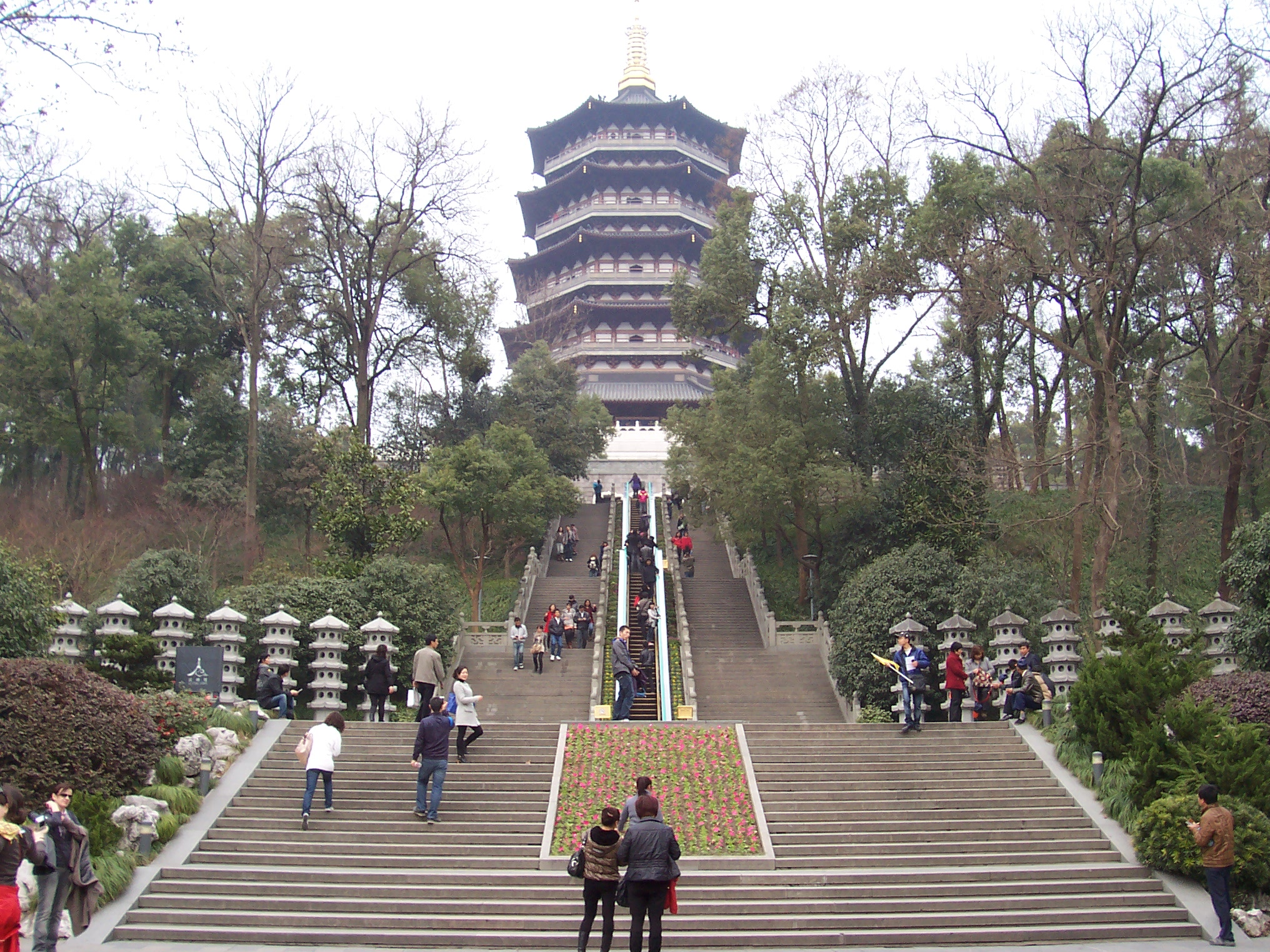 Leifeng Pagoda, Hangzhou